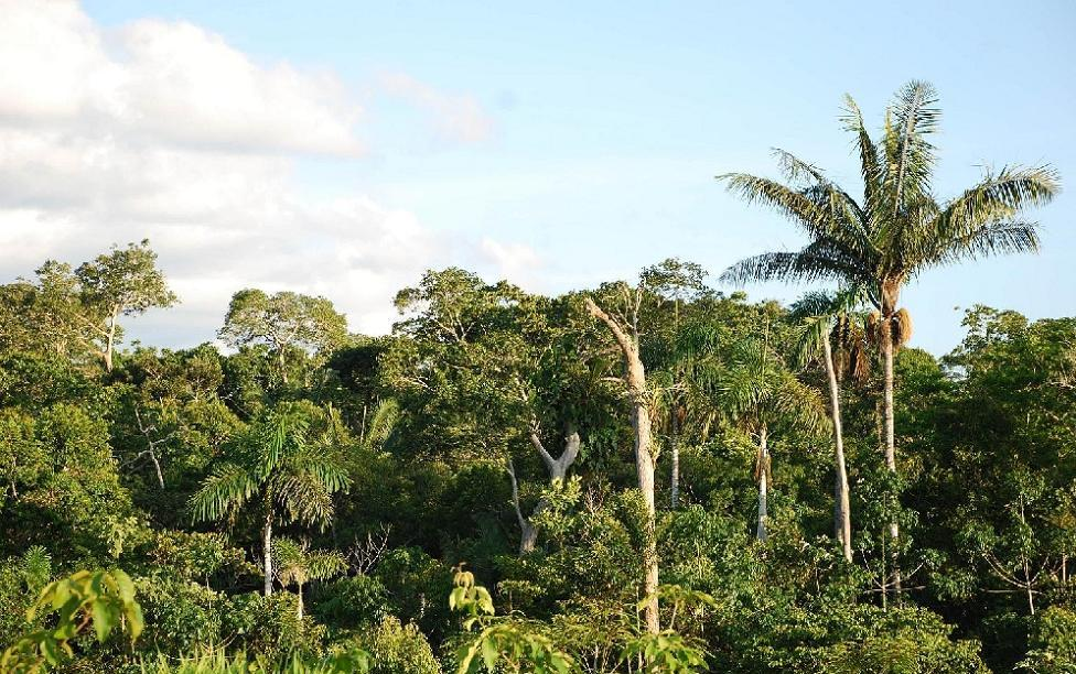 South American Jungle or Virgin Forest. Here in the border region between Bolivia and Peru. Puma country.